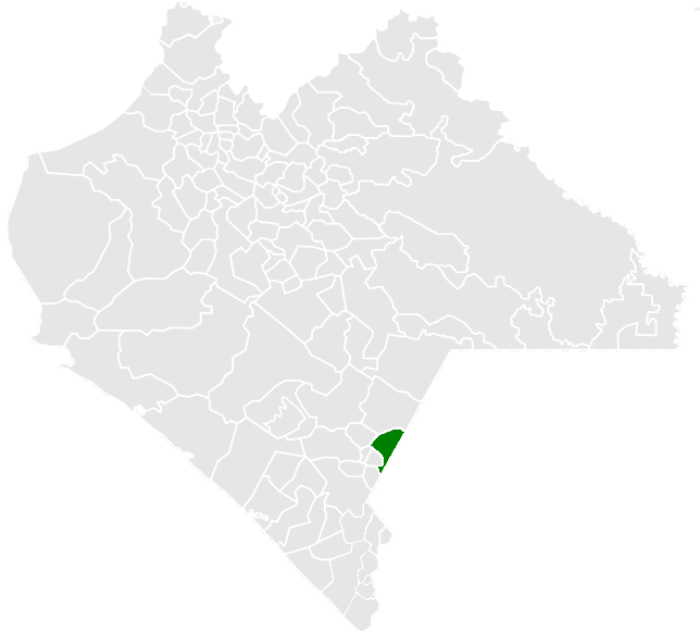 Map of the Municipalty of Amatenango de la Frontera in the State of Chiapas, México.